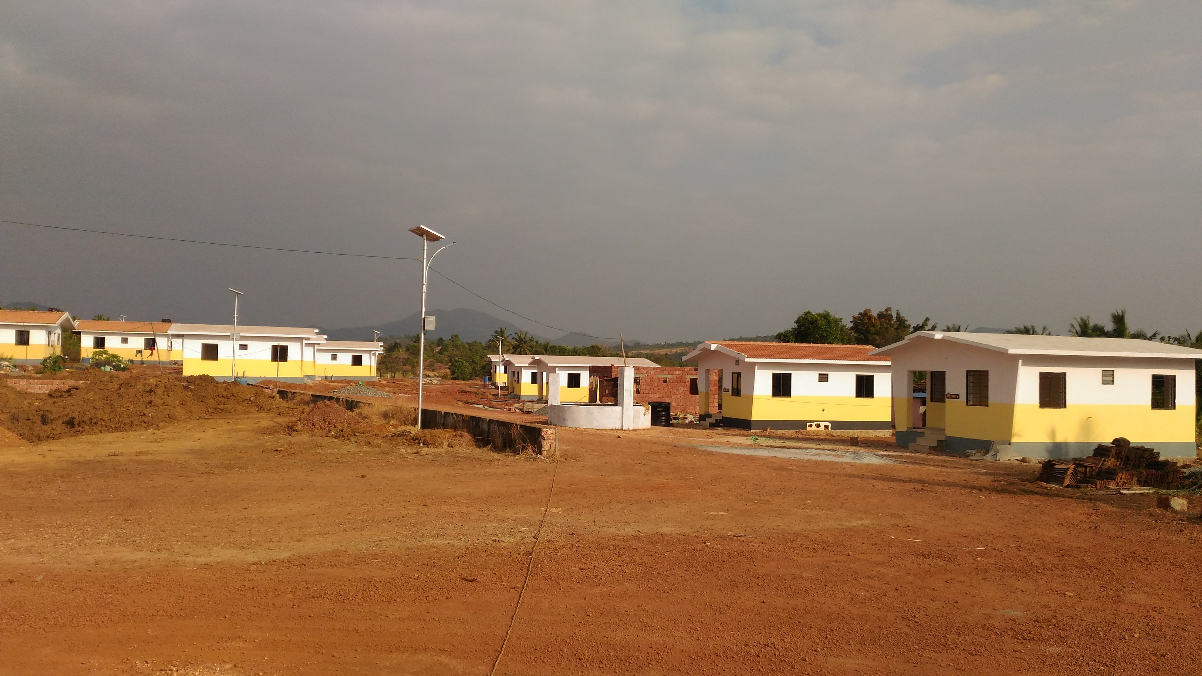 Houses by Sathyasai orphanage trust at Eriya